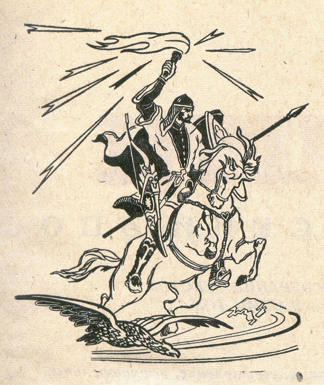 Nart Sagas